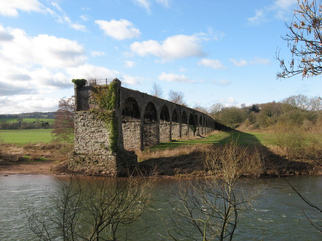 Viaduct, River Wye, near Monmouth Disused railway viaduct, once carried the line from Monmouth to Tintern and into the Forest of Dean. Note the missing span across the river.